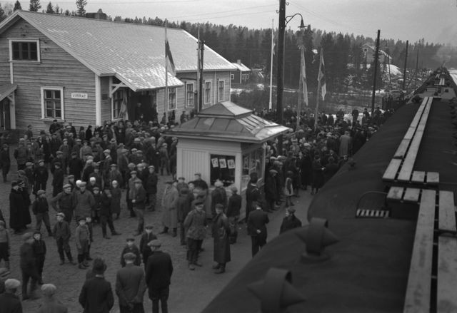 Virrat railway station November 12, 1938 when the Haapamäki–Pori railway was opened and the "party train" went from head to head.